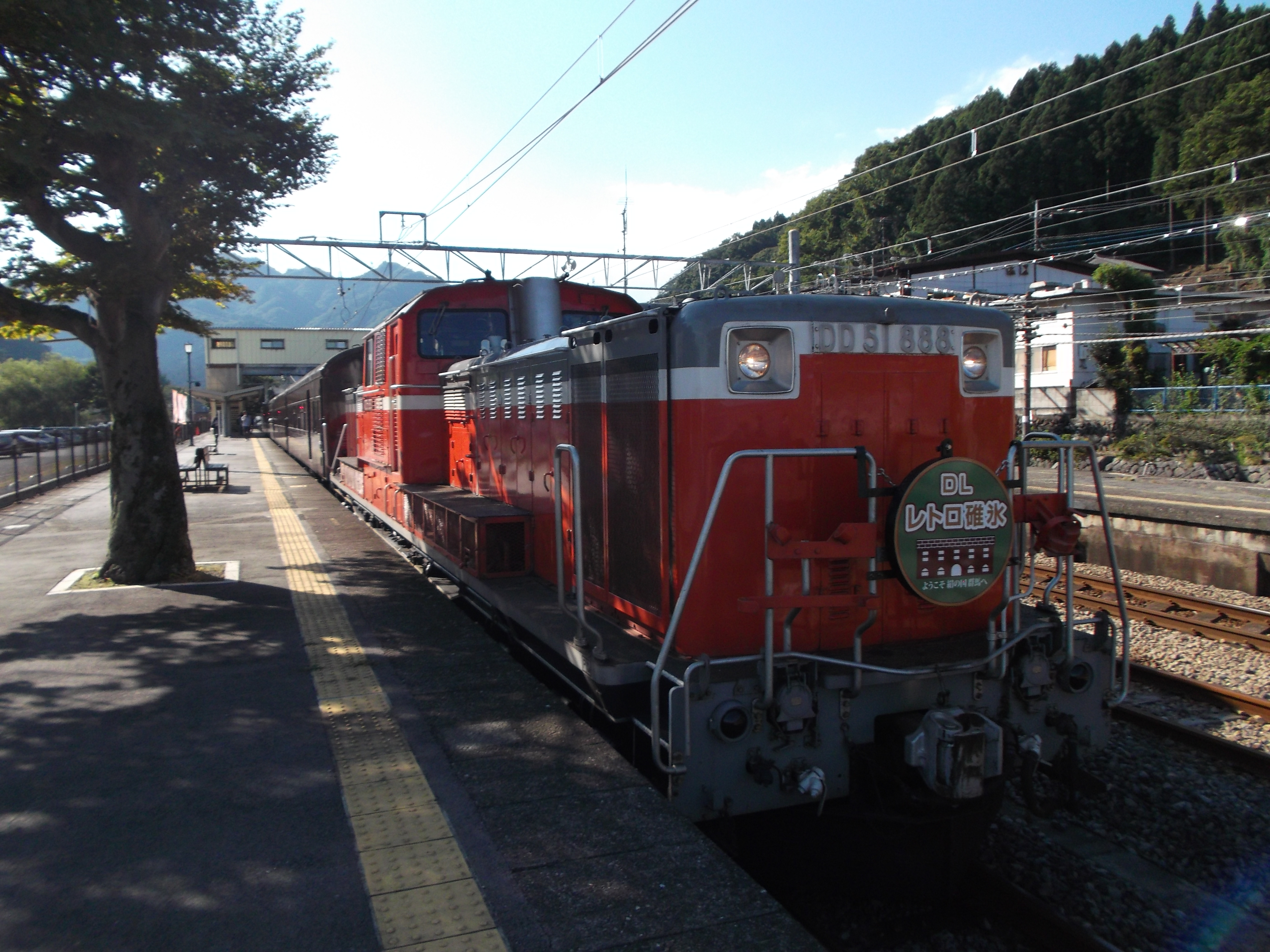 JR East Class DD51 diesel locomotive DD51 888 at Yokokawa Station in Gunma Prefecture, Japan